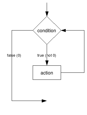 C language example. Illustrates while control statement.